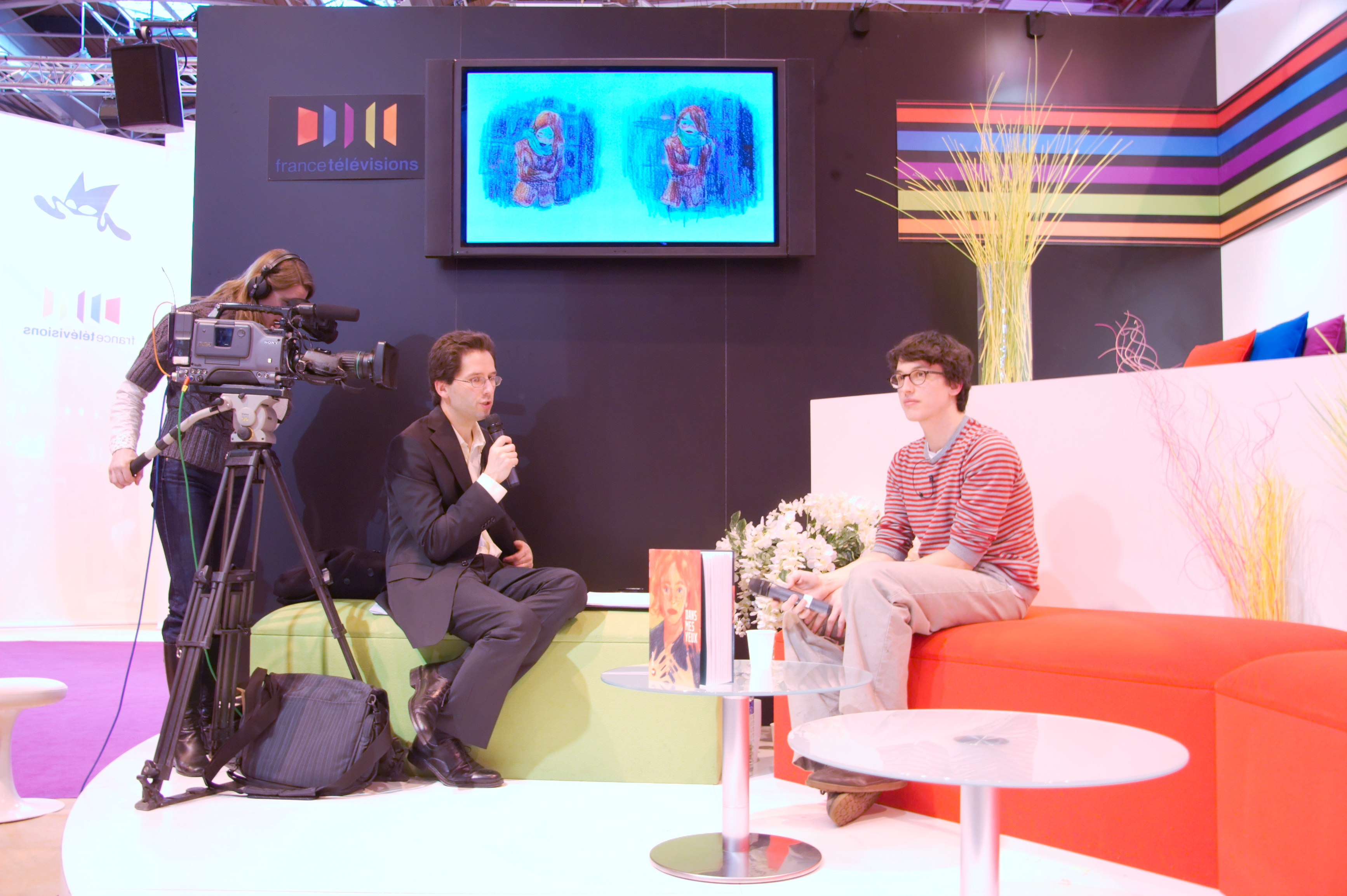 Interview with Bastien Vivès at Salon du livre 2009 (Paris, France)